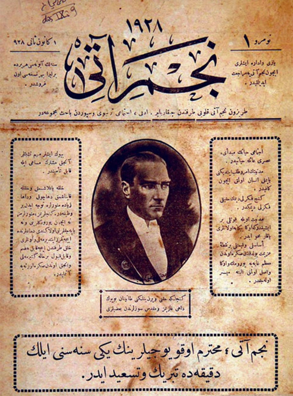 Cover page of the first issue of the Necm-i Ati magazine